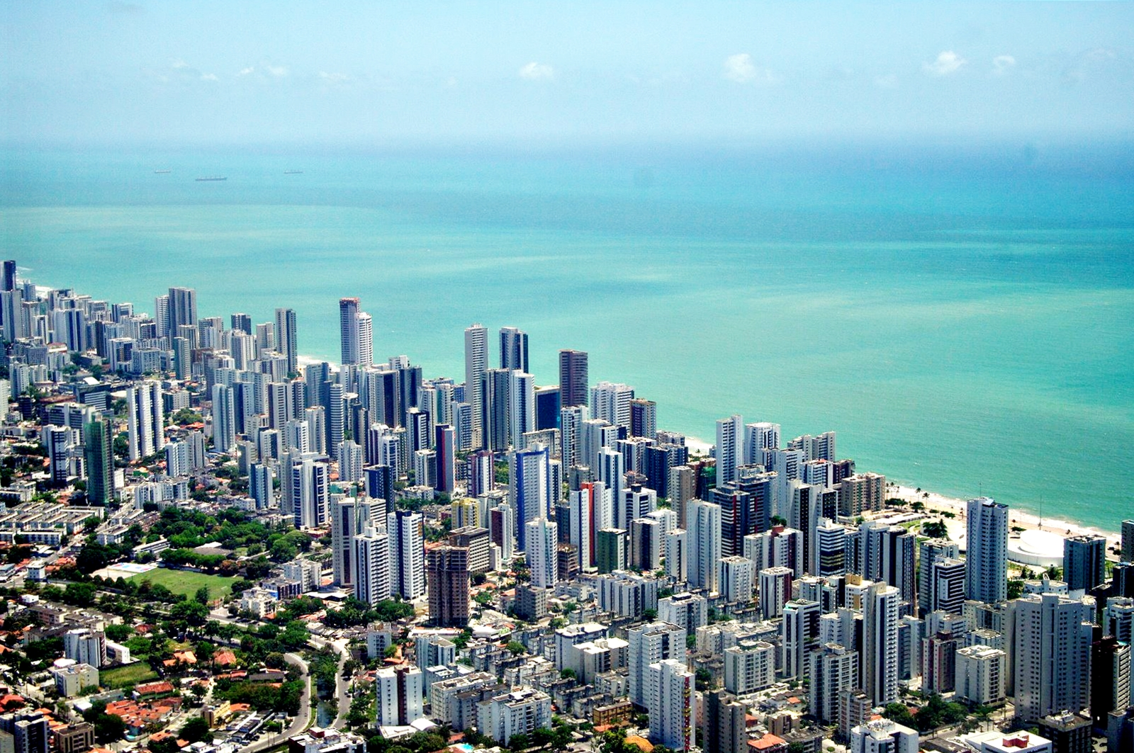 Aereal view of Recife